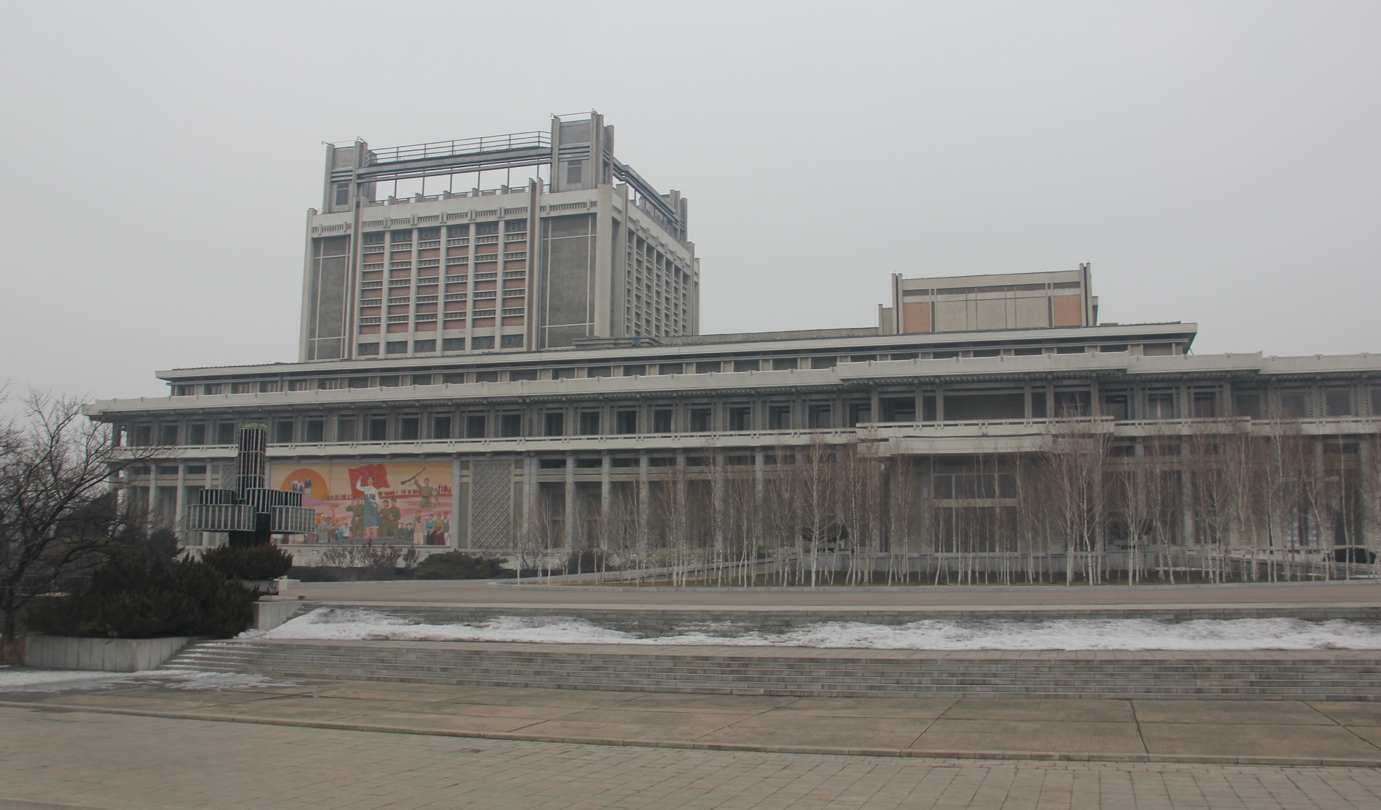 Mansudae Grand Theatre